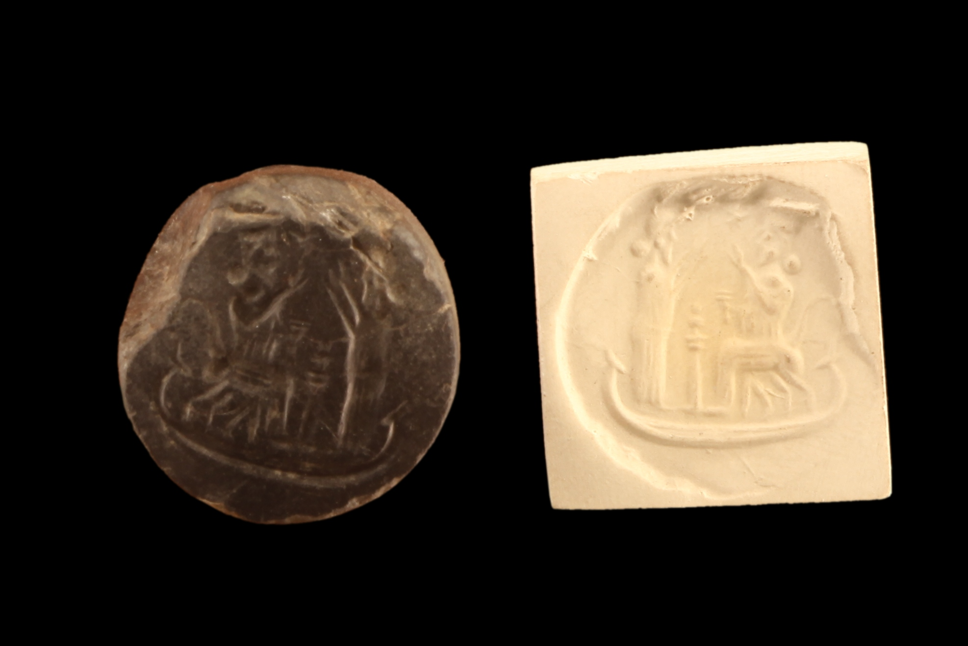 Seal: Orant before the altar and divinity on a boat